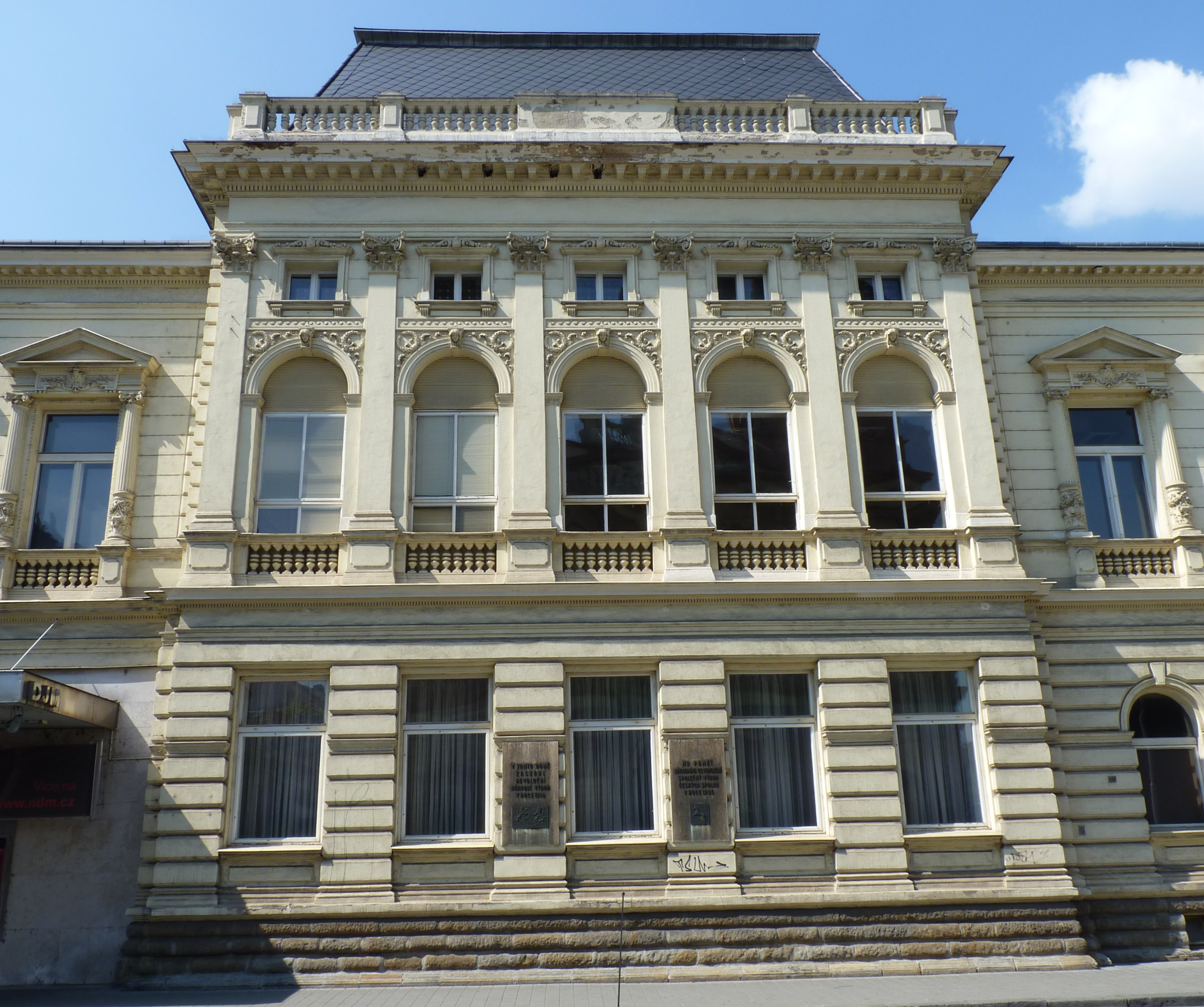 Ostrava, street čs. Legií 12. Ostrava, Moravian-Silesian Region, Czech Republic